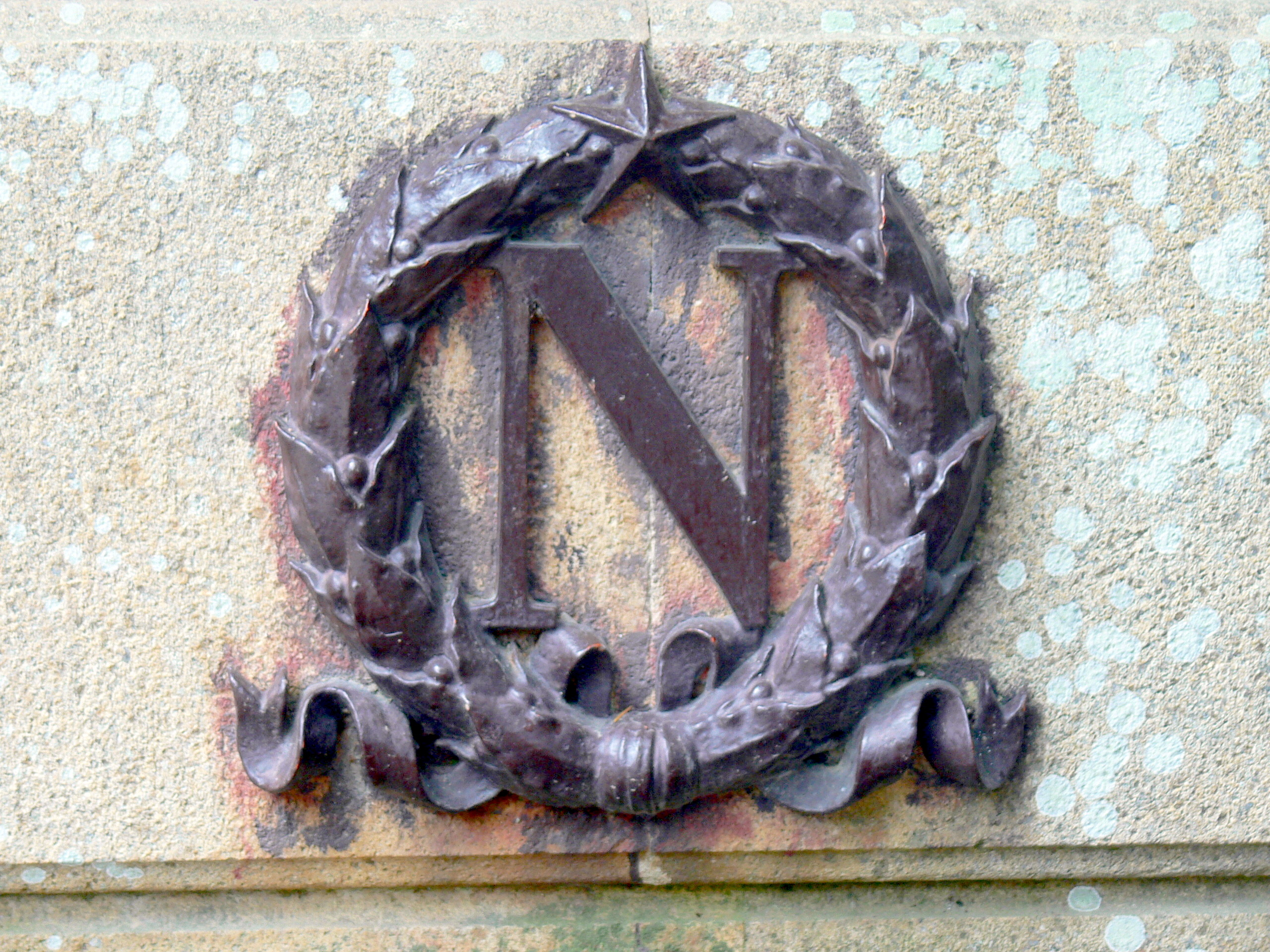 San Martino on Elba. Villa Demidoff: "N" as Symbol of Napoleon.